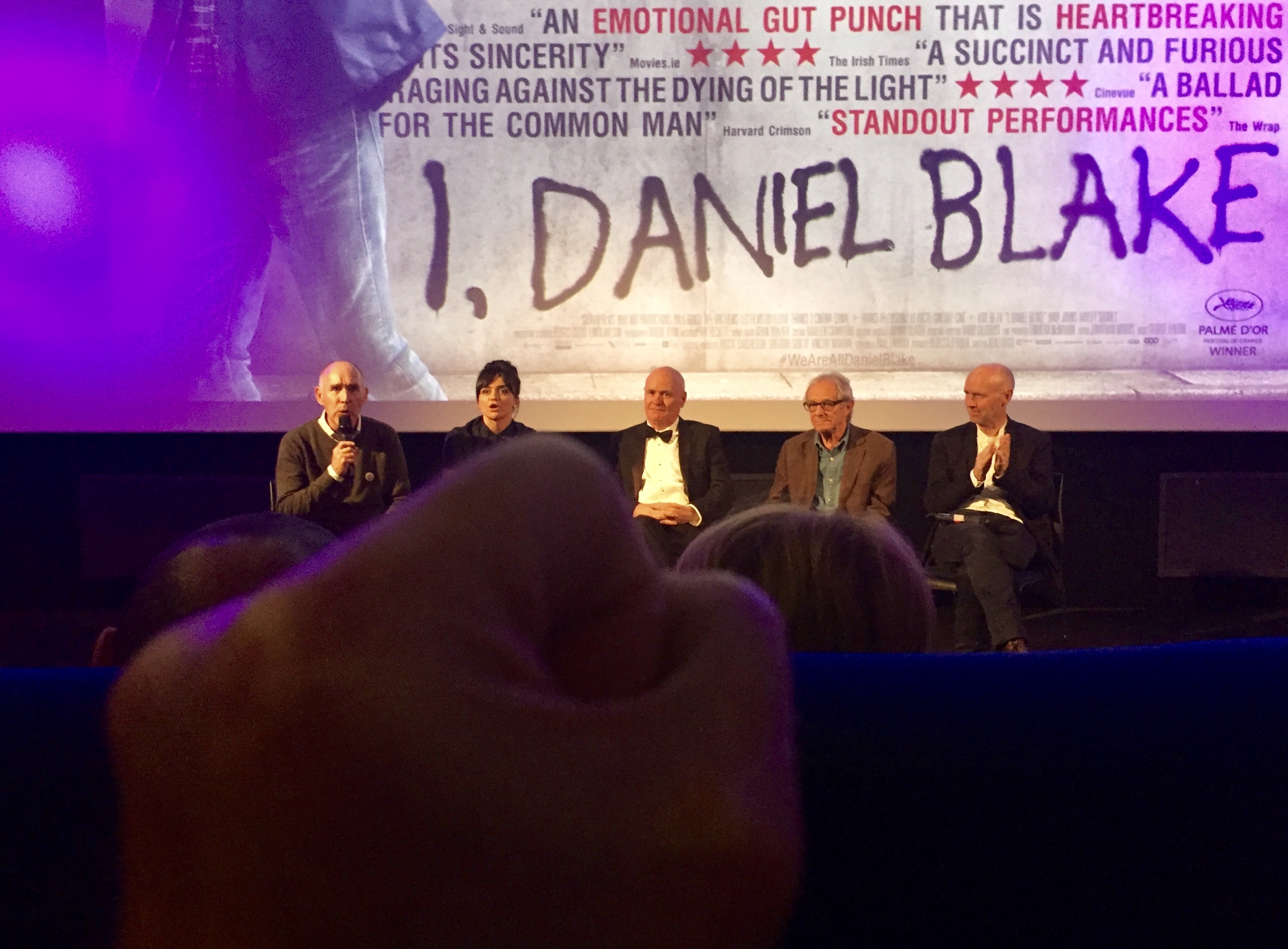 Director Ken Loach's latest film "I, Daniel Blake" was made in the North East of England and some of it was filmed in our office building. Tonight we went to the Newcastle premiere and Q&A with the director , writer and members of the cast. From left to right: Tony Dowling (Chair: North East People's Assembly) Hayley Squires ( "Katie") Dave Johns ("Dan") Ken Loach ( Director) and Paul Laverty (Writer). The film itself is amazing. Tragic, brave and funny, But mostly it made me angry. And as Hayley Squires said during the post-film discussion - anger can be either destructive or motivating. I know which way it's punched me.....